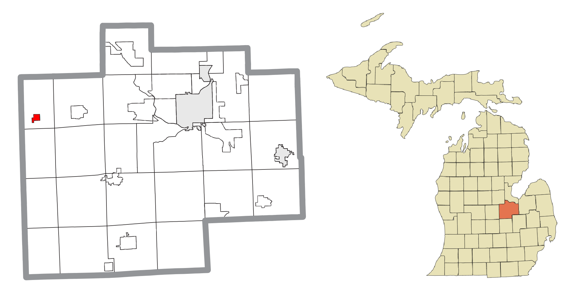 Merrill, MI